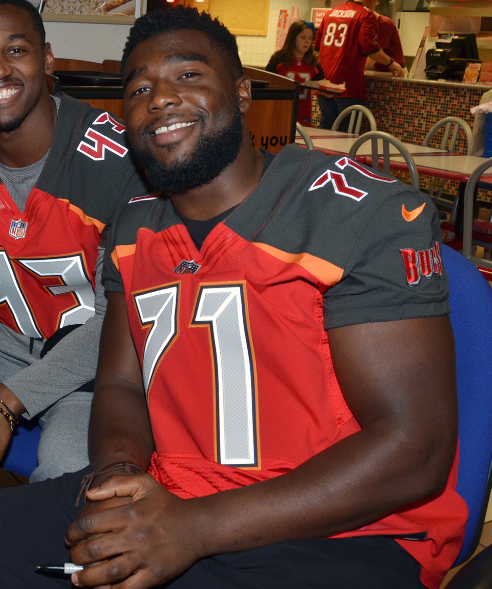 VICENZA -- The Tampa Bay Buccaneer Cheerleaders and football players Emmanuel Smith and Demone Harris visited Caserma Ederle Feb. 1, 2019, as part of a 12-day tour to several military bases in Italy and Greece. The TBBC were traveling with Armed Forces Entertainment to visit and say thank you to U.S. Service Members.